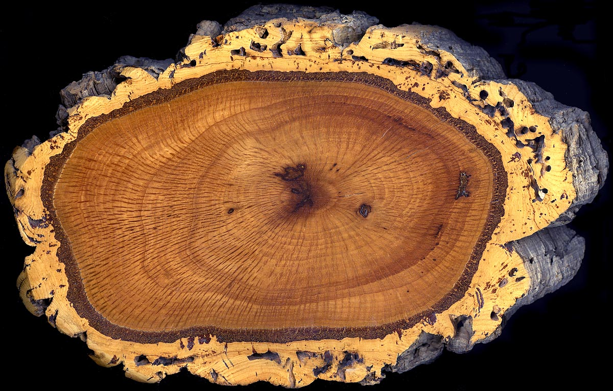 A diagonal sectionthrough the trunk of a cork oak, Quercus suber